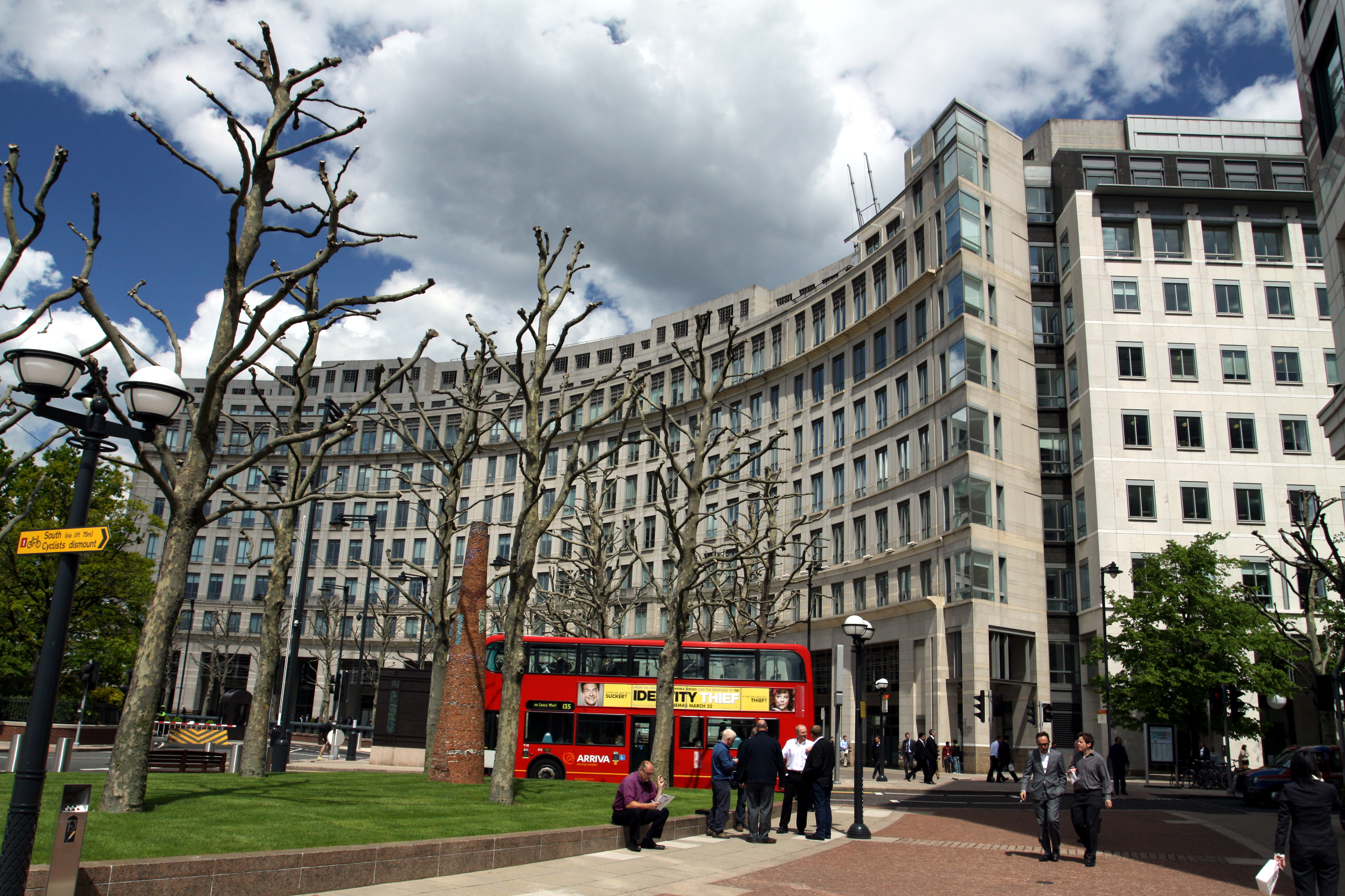 11 Westferry Circus in London Borough of Tower Hamlets, London, England, Great Britain The making of this file was supported by Wikimedia UK.